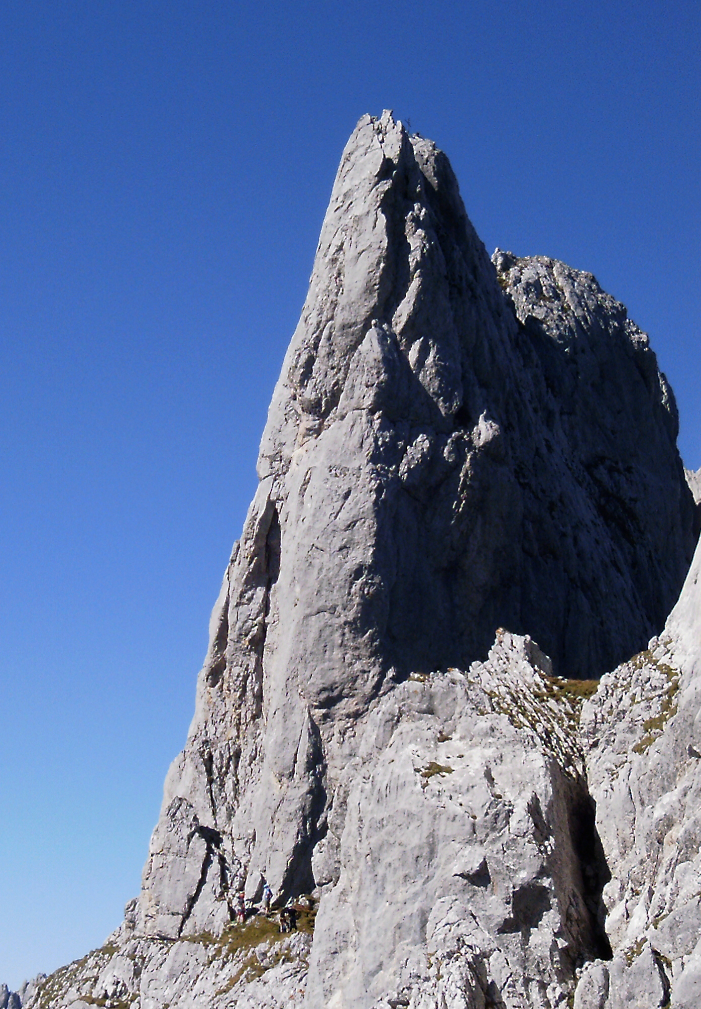 Kreuztörlturm from SE